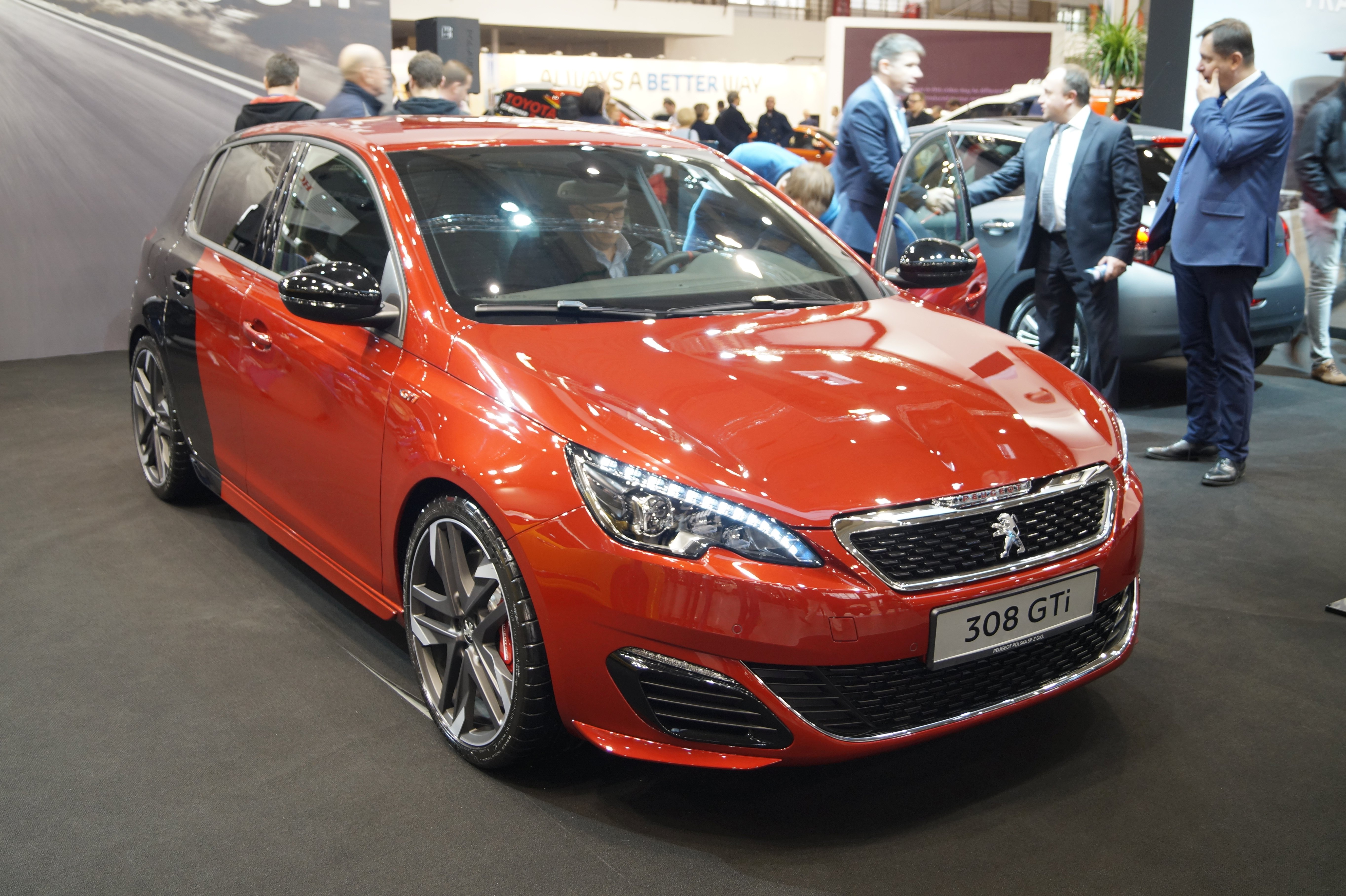 The making of this document was supported by Wikimedia Polska Association, within Wikigrant no. WG 2016-10. Peugeot 308 GTi na Motor Show Poznań 2016